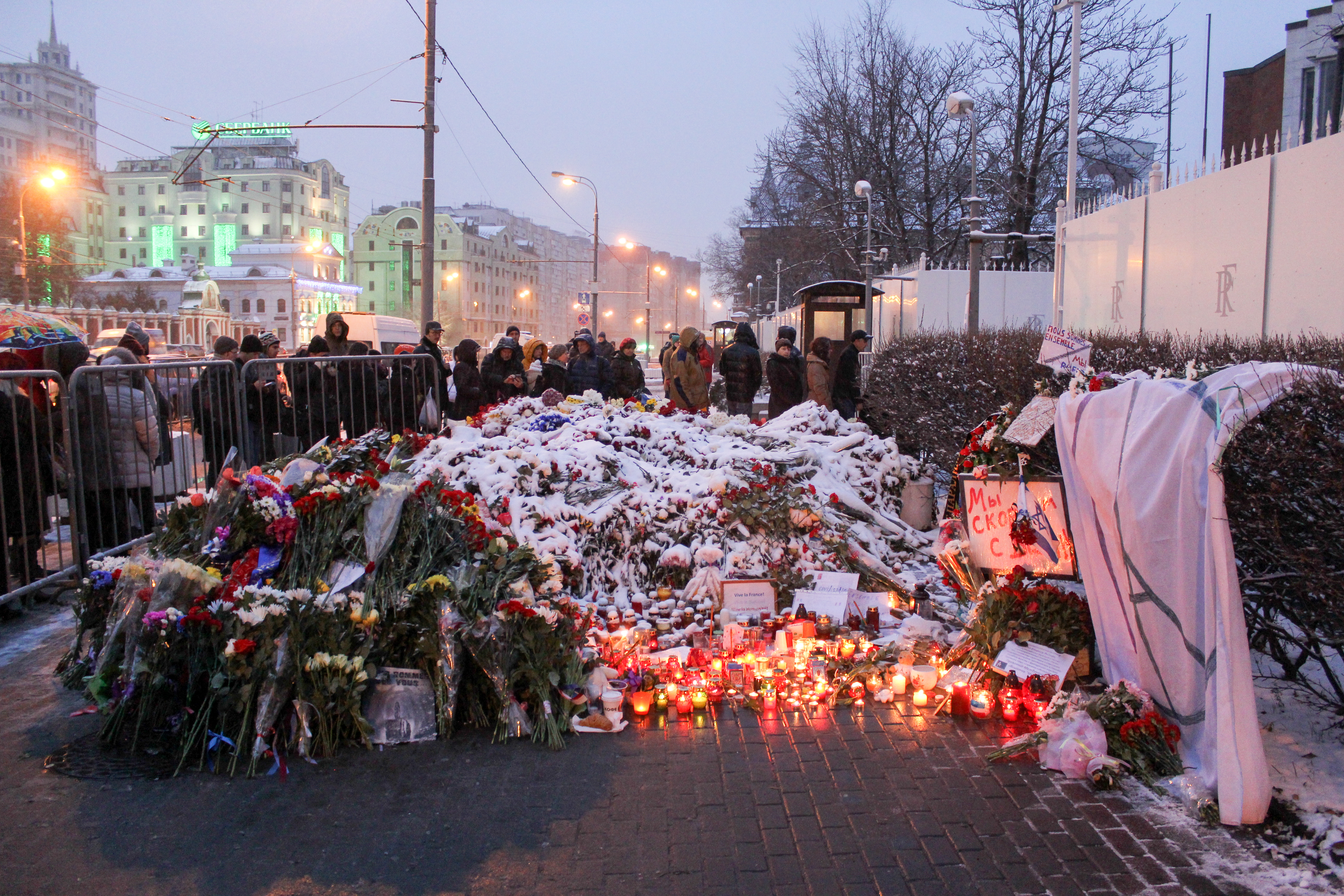 Flowers and candles. People standing in a line to write condolences in front of French embassy in Moscow